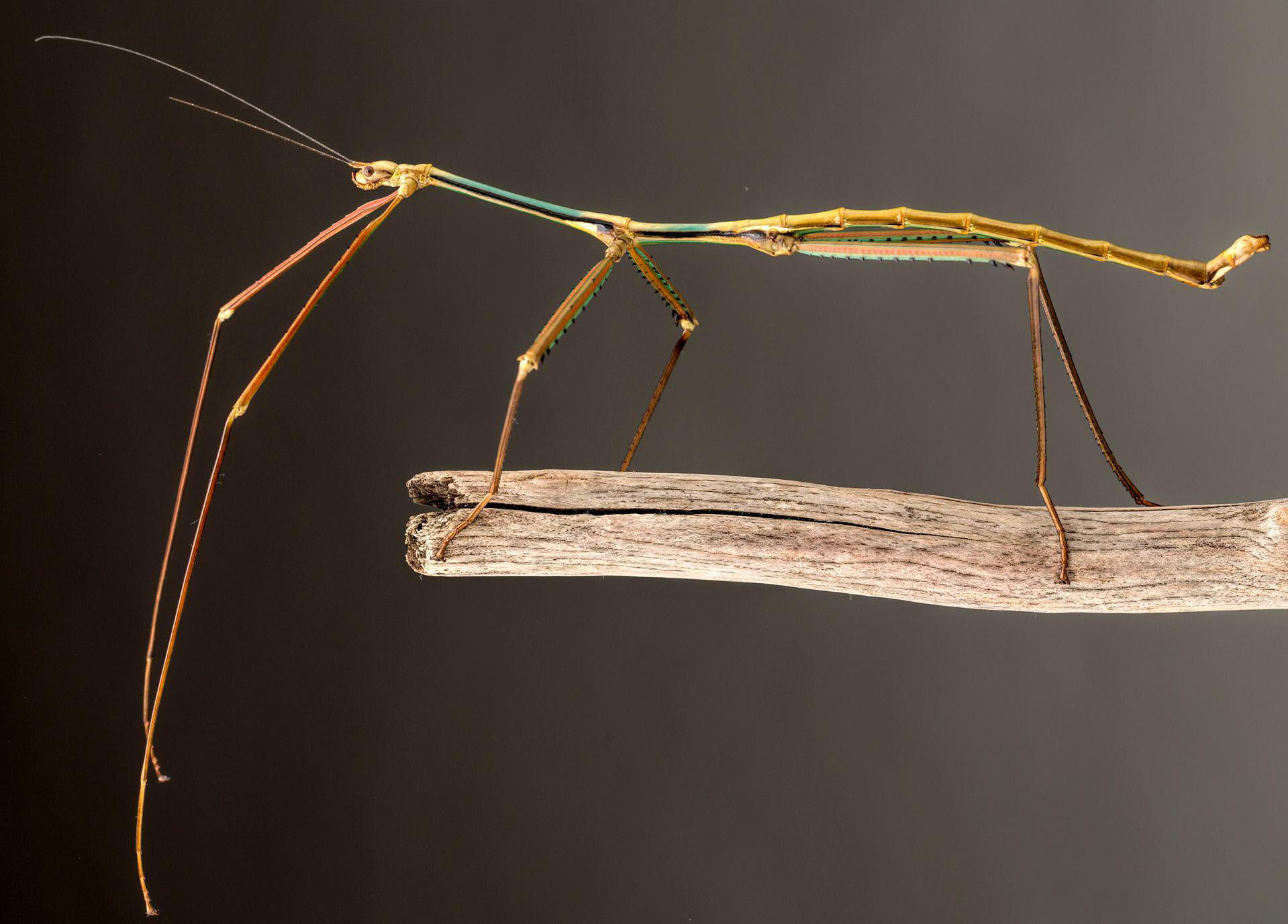 Male Phryganistria tamdaoensis from Tam Dao National Park, Vietnam